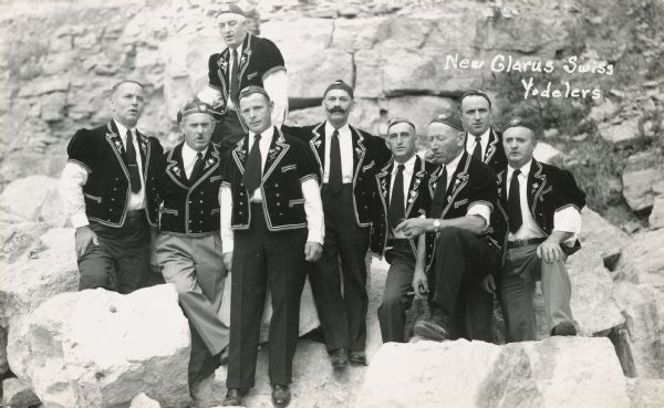 Outdoor group portrait of a group of Swiss yodelers in costume. Standing fourth from right: John Schneider.